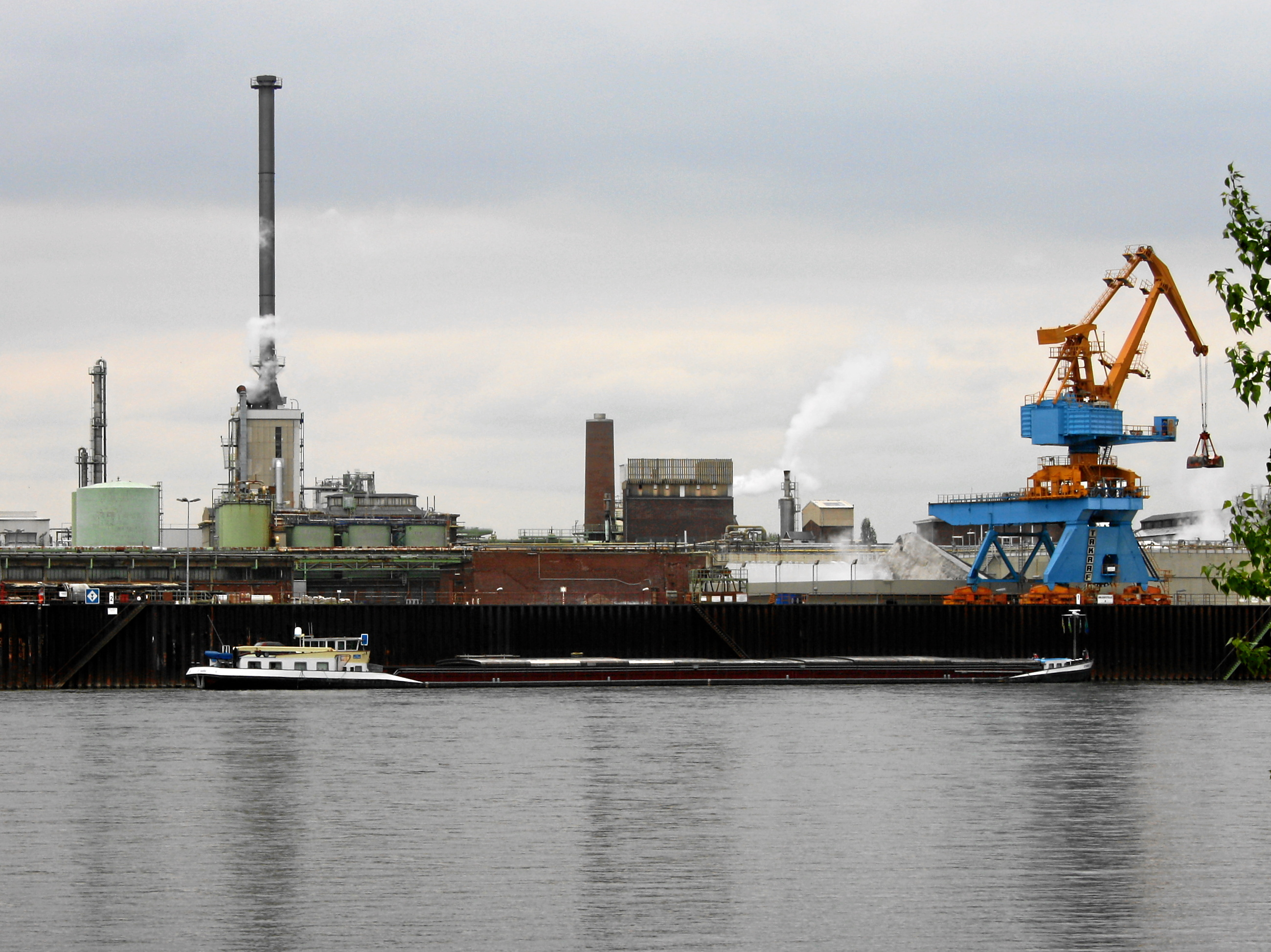 Niederkassel-Lülsdorf, Germany. Chemical factory Degussa-Hüls.